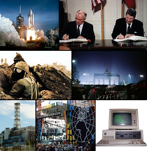 A montage of notable events in the 1980s.